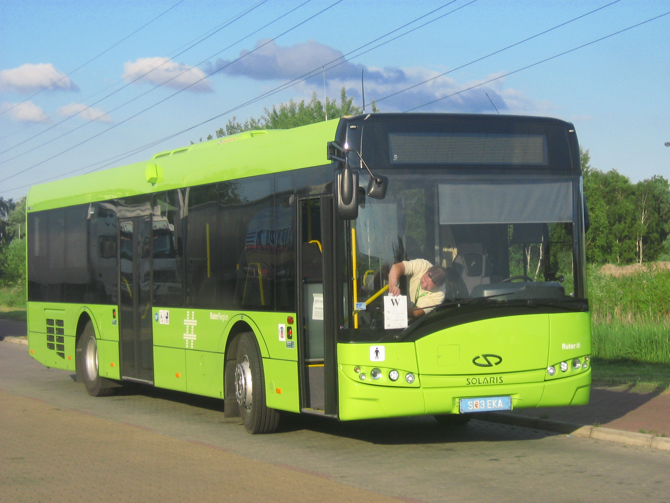 Solaris Urbino 12 LE bus in Świnoujście, Poland. Year built 2009. Bus in way to Norway.